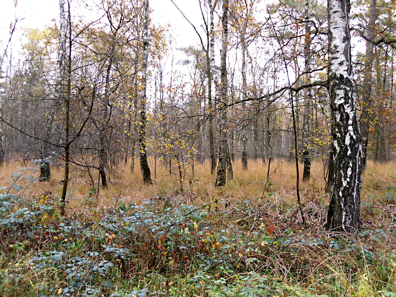 Hildener moor